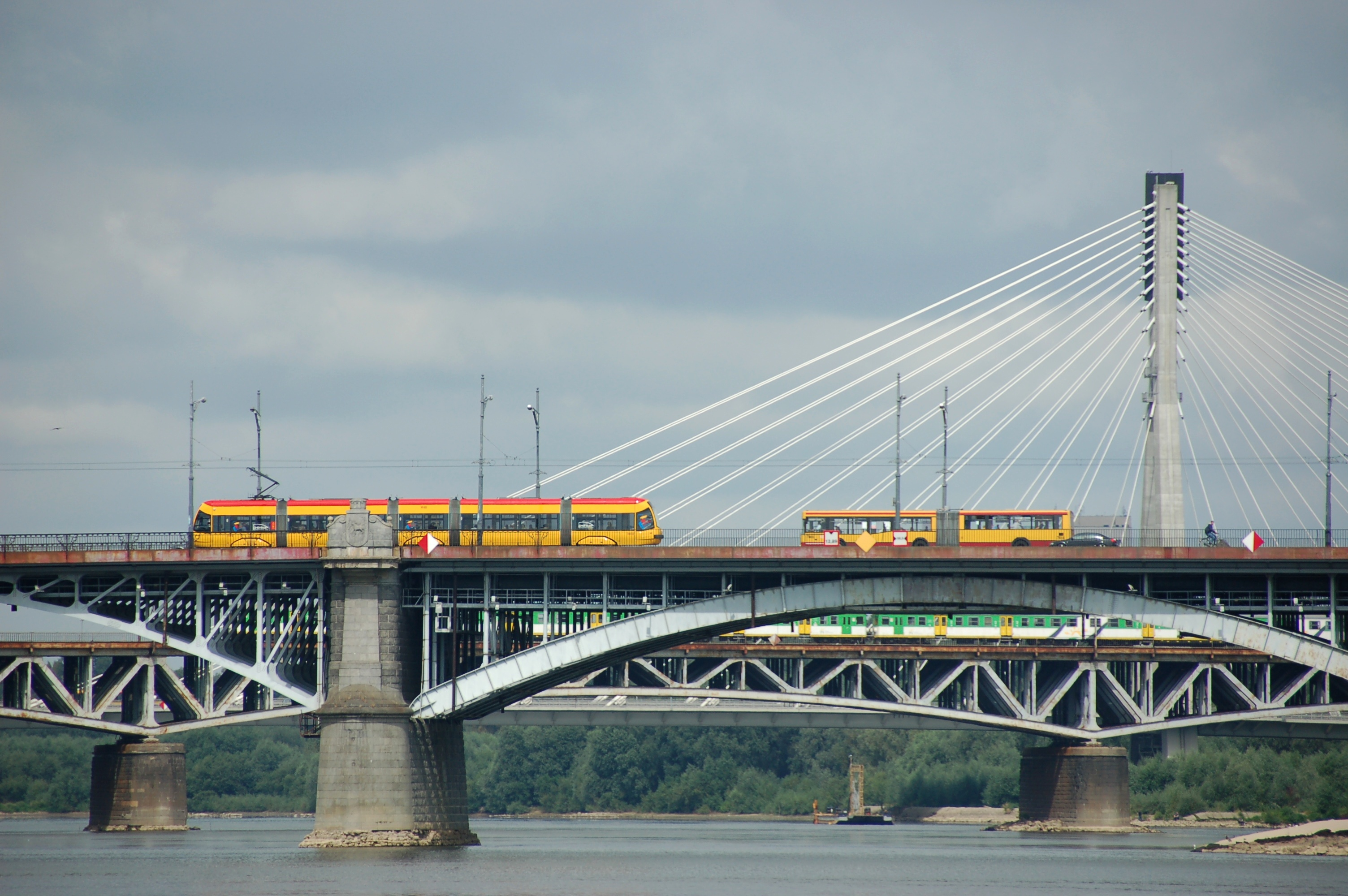 Bridges in Warsaw